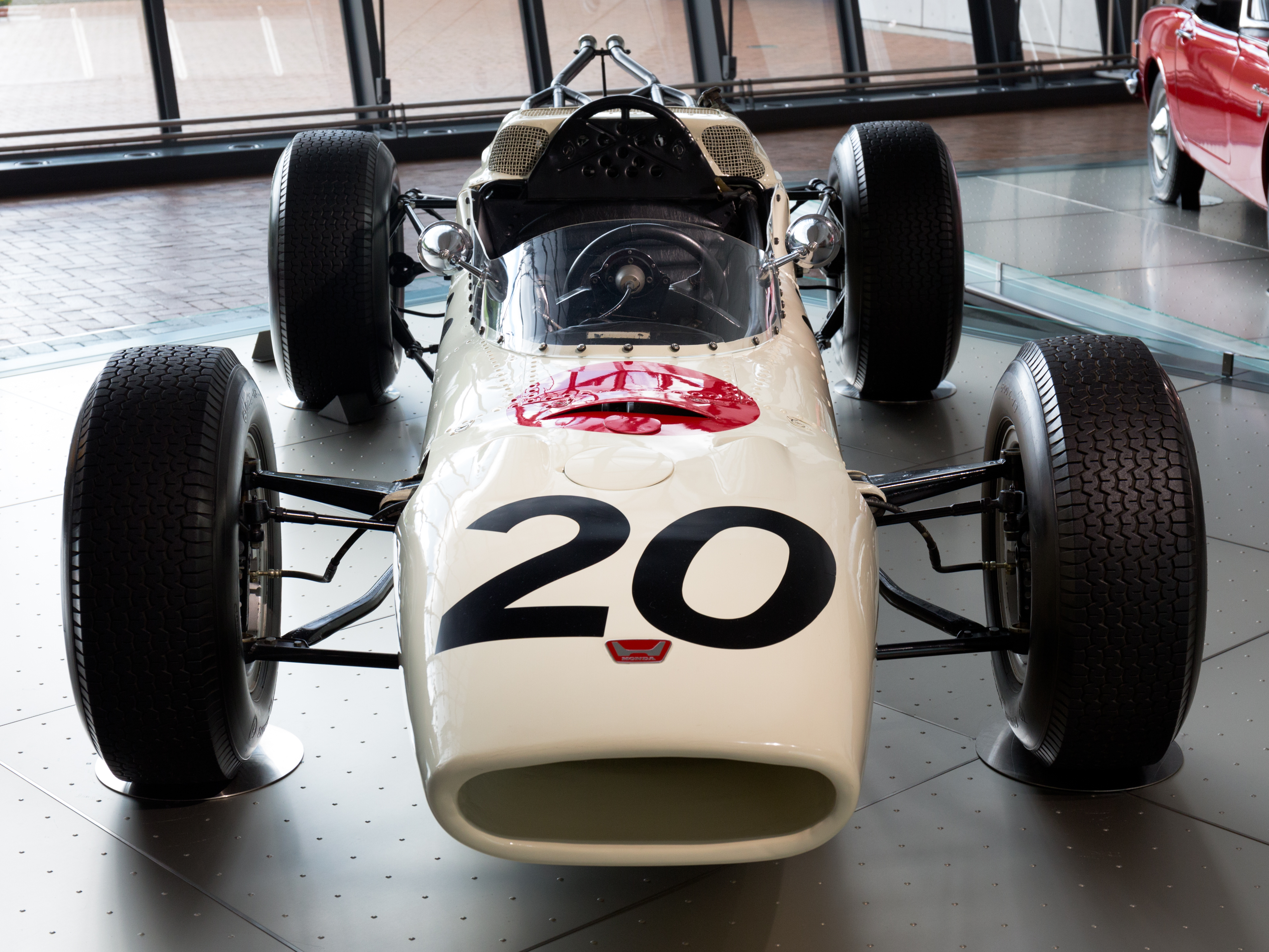 1964 Honda RA271